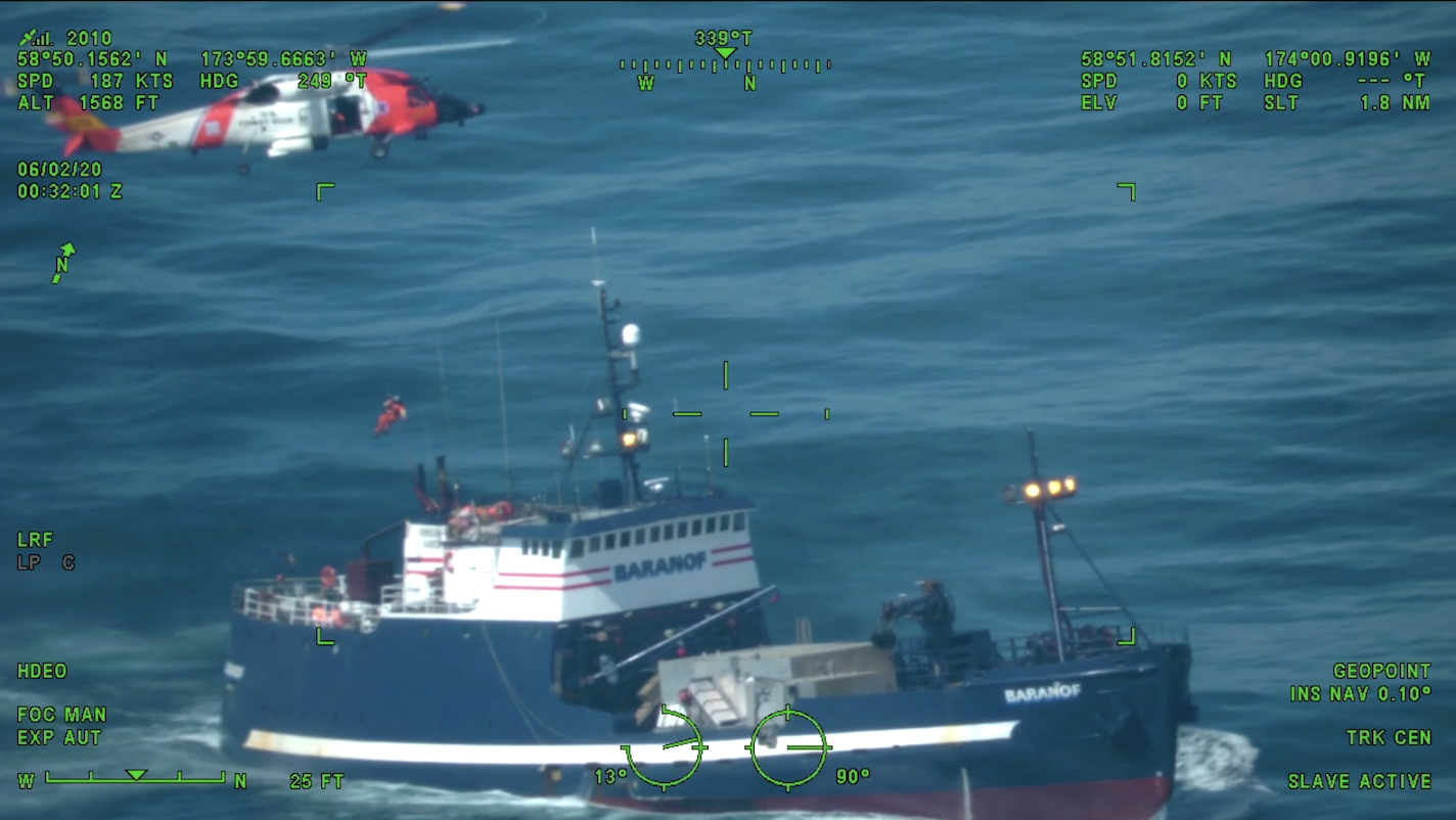 Two Coast Guard Air Station Kodiak C-130J Hercules aircraft and two MH-60 Jayhawk helicopter crews coordinate efforts to perform a long-range medevac of an injured fisherman located approximately 300 miles northwest of St. Paul Island, Alaska, June 1, 2020. The man was safely transferred to awaiting emergency medical services personnel in St. Paul, who further transported him to Anchorage for further care. The ship was built as USCGC Balsam and converted into the F/V Baranof after decommissioning in 1975.